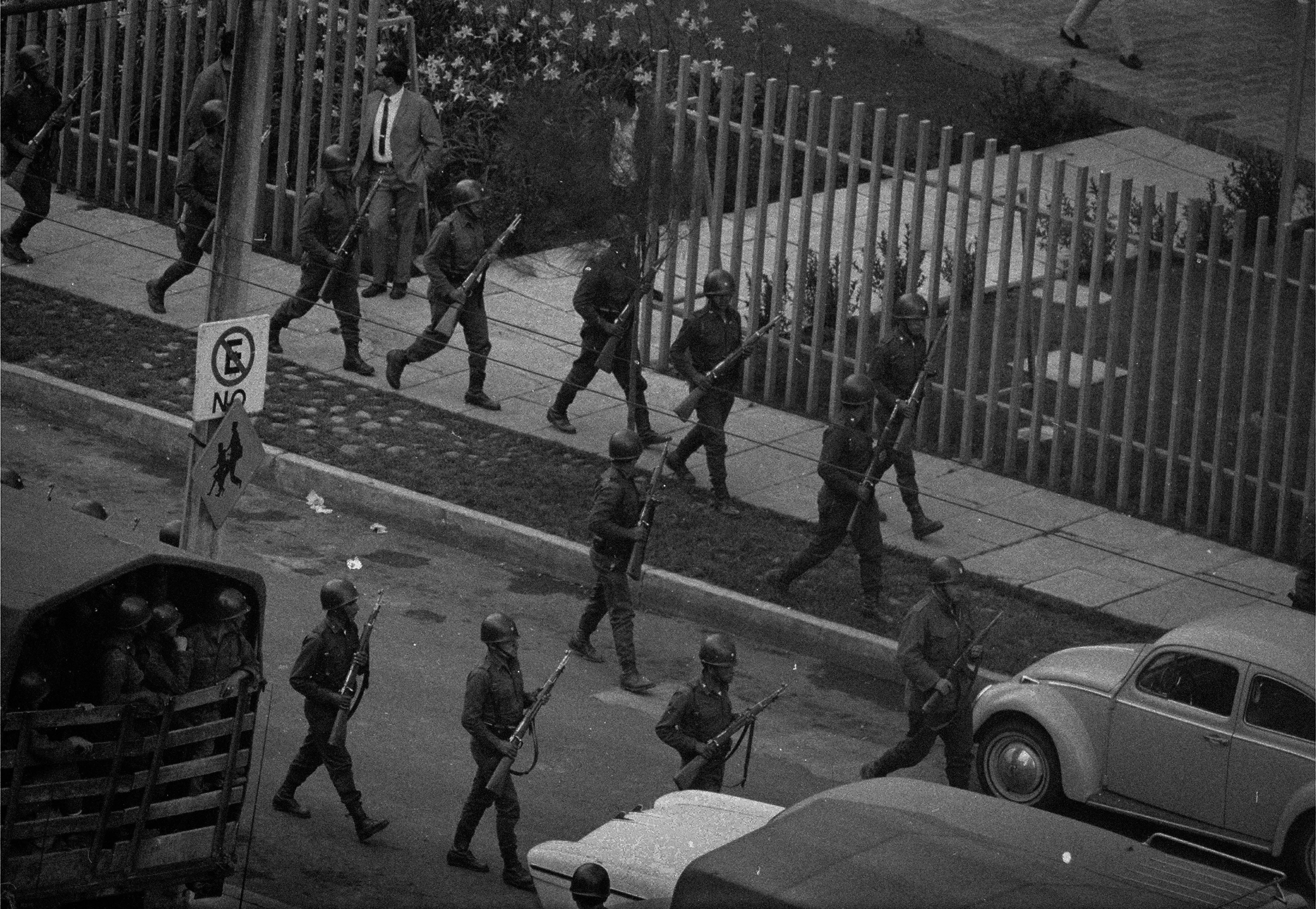 Images of Mexico City Student Movement, October 1968.